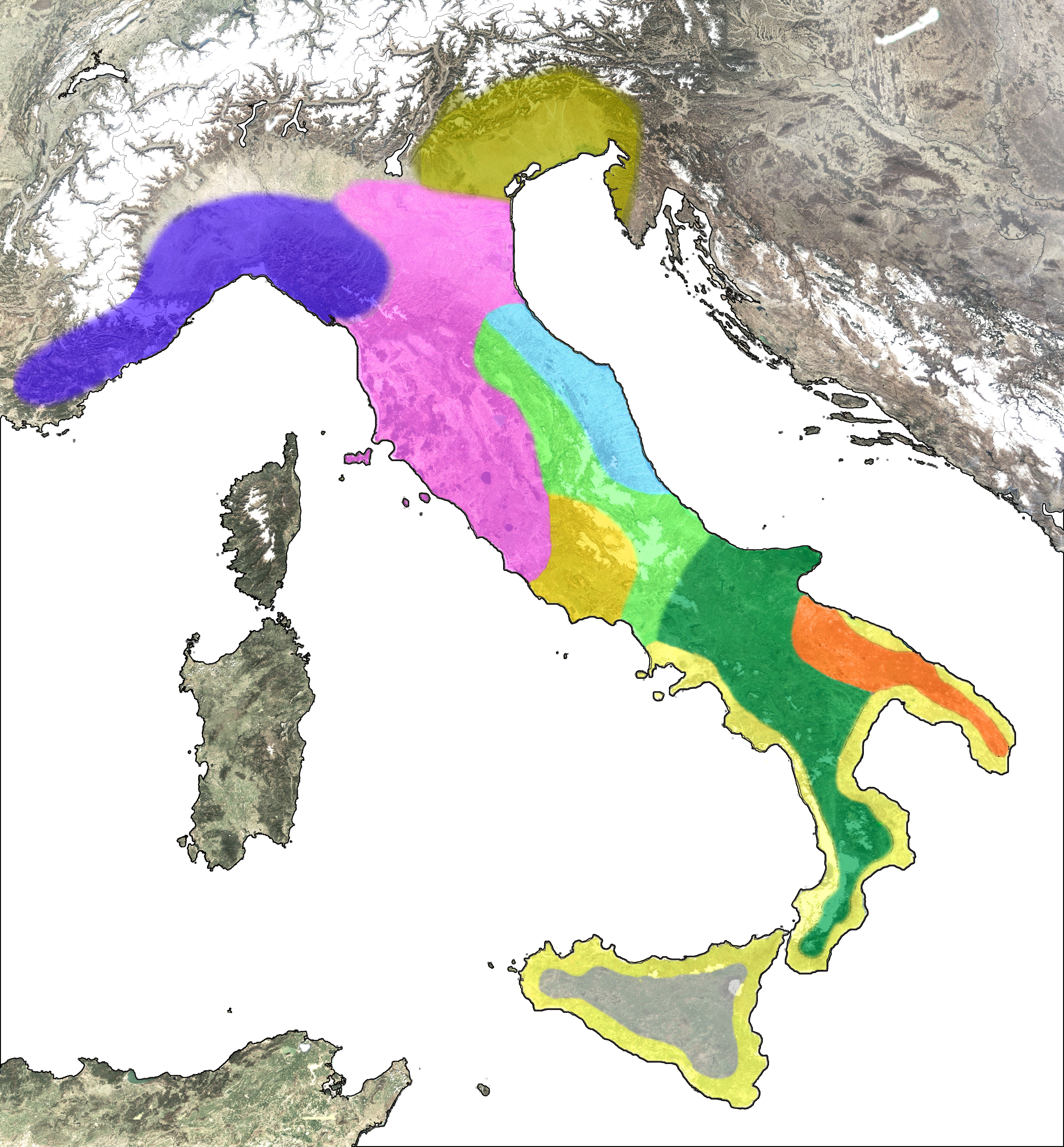 Cleaning of File:Italie -800.JPG.